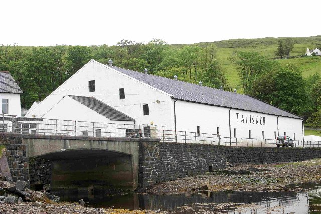 Talisker Distillery, Carbost, Isle of Skye